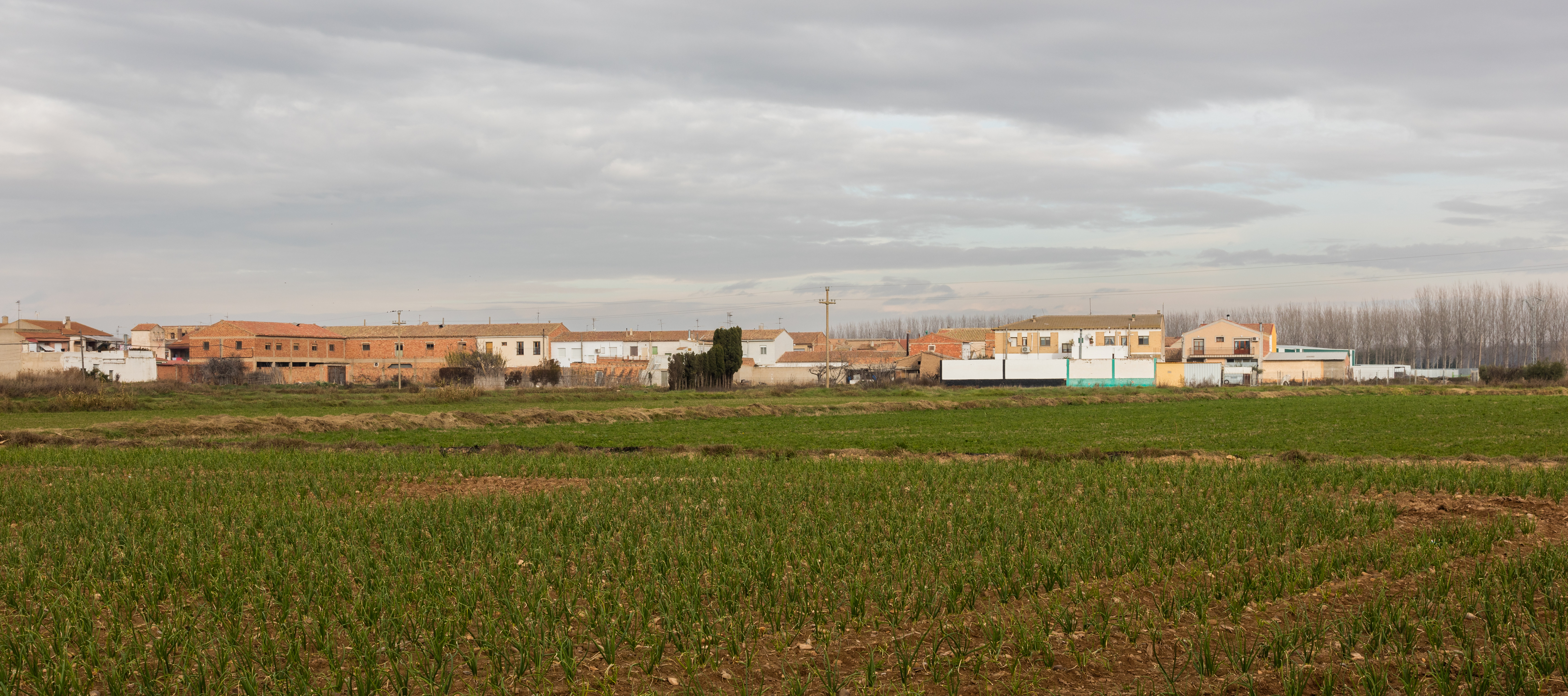 Boquiñeni, Zaragoza, Spain